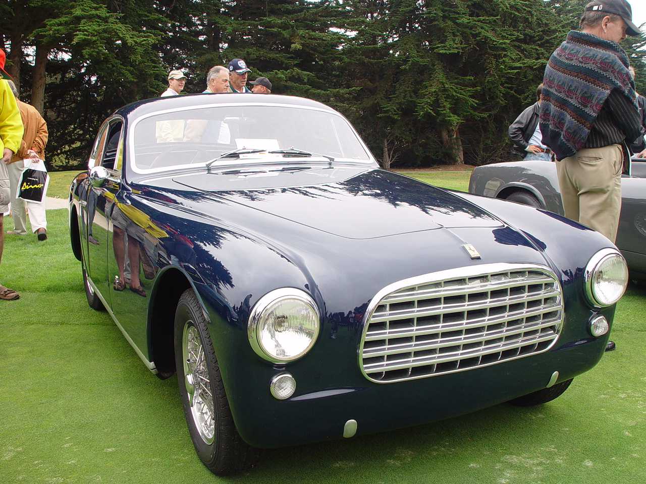 Ferrari 340 America Ghia Coupé. Chassis #0148A.[1] Photograph taken at 2004 Concorso Italiano.